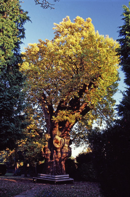 Minchenden Oak, Garden of Remembrance, Waterfall Road, N14. These gardens are on the former site of the Minchenden Estate, one of the great estates in the area, which was owned by the Duke of Chandos. Minchenden House was built around 1747 by John Nicholl from whom Chandos purchased it, using it as his country house after his property Canons. The Duchess Dowager of Chandos lived here on occasion until her death in 1813 and it was then passed to the Marquis of Buckingham whose wife was the daughter and heiress of the last duke of Chandos. The old mansion was knocked down in 1853 although a smaller house, Minchenden Lodge, was built in the mid 19th century to the north. A relic of the grounds of Minchenden House remains today in the form of the Minchenden or Chandos Oak, an ancient pollarded oak tree, said in the 19th century to be the largest in England with a girth of over 27 feet. Edward Walford reports that its spread in 1873 was 'no less than 126 feet, and it is still growing'. It is thought to be a survivor of the ancient Forest of Middlesex and may be some 800 years old. The Minchenden Oak is in what is now known as Minchenden Oak Gardens, which was formed in 1934 as a Garden of Remembrance, on land adjacent to the old graveyard of Christchurch. Here we see this ancient pollarded tree in Autumn.